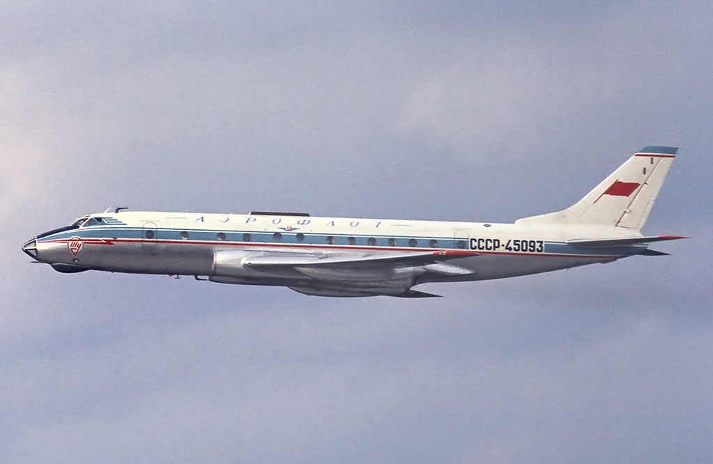 Tupolev Tu-124V of Aeroflot at Arlanda Airport